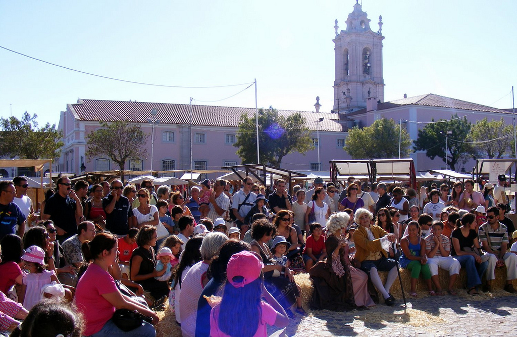 Seventeenth Fair